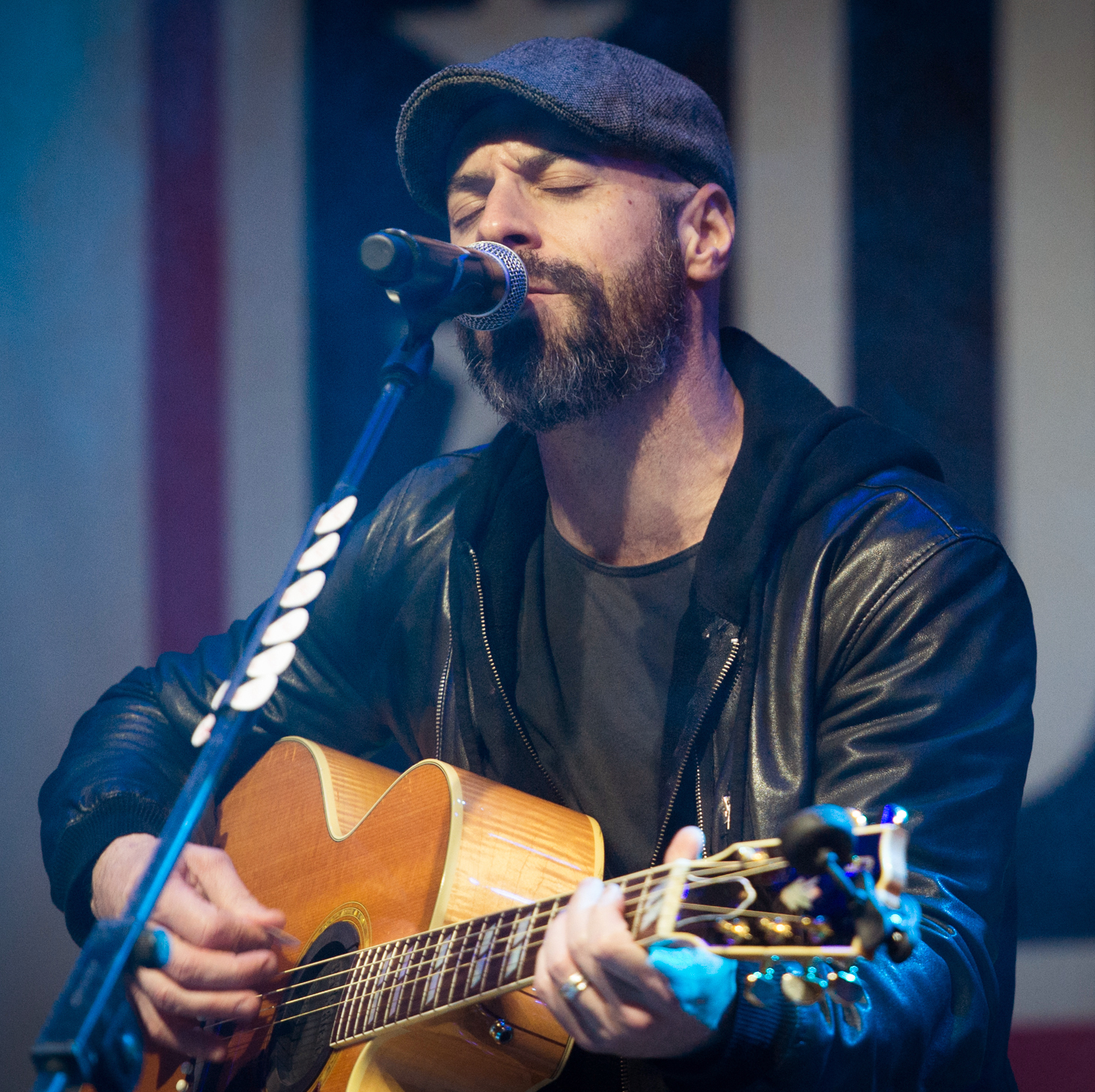 Musician Chris Daughtry performs for US service members and their families during a USO show at Naval Support Activity Bahrain, Dec. 7, 2015. The Chairman, along with members of the 2015 USO Entertainment Troupe, are visiting service members and their families to express the country's gratitude for their service while deployed during the Holidays in defense our Nation. (DoD photo by D. Myles Cullen/Released)